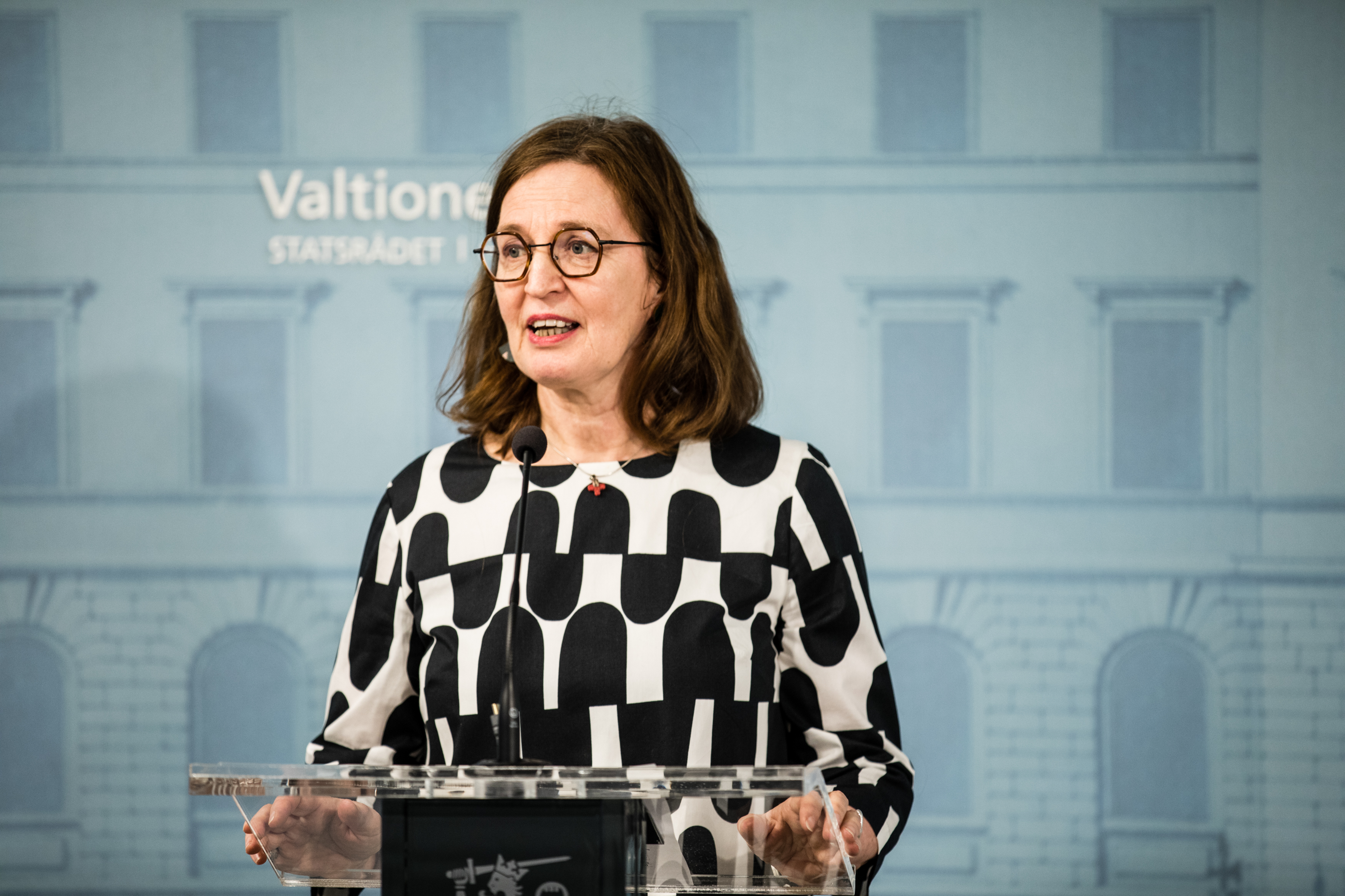 Valtioneuvoston Suomi toimii -kampanjan tiedotustilaisuus 17.4.2020